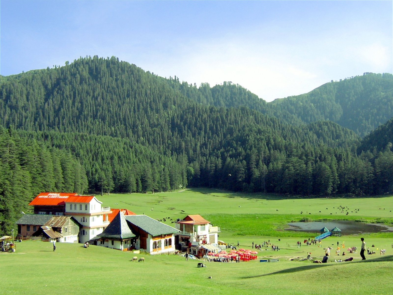 A summer afternoon at Khajjiar, Himachal Pradesh, India